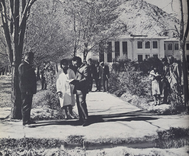 Original caption: "Kabul University students changing classes. Enrollment has doubled in last four years."